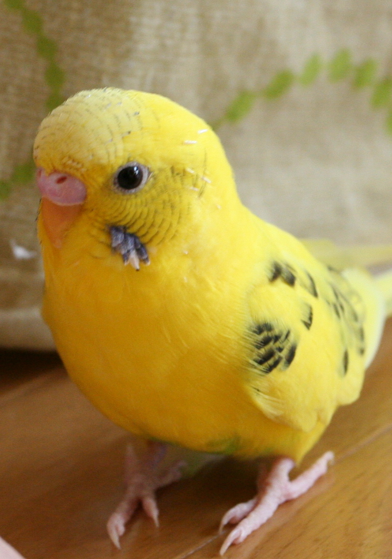 Budgerigar. Tokyo, Japan